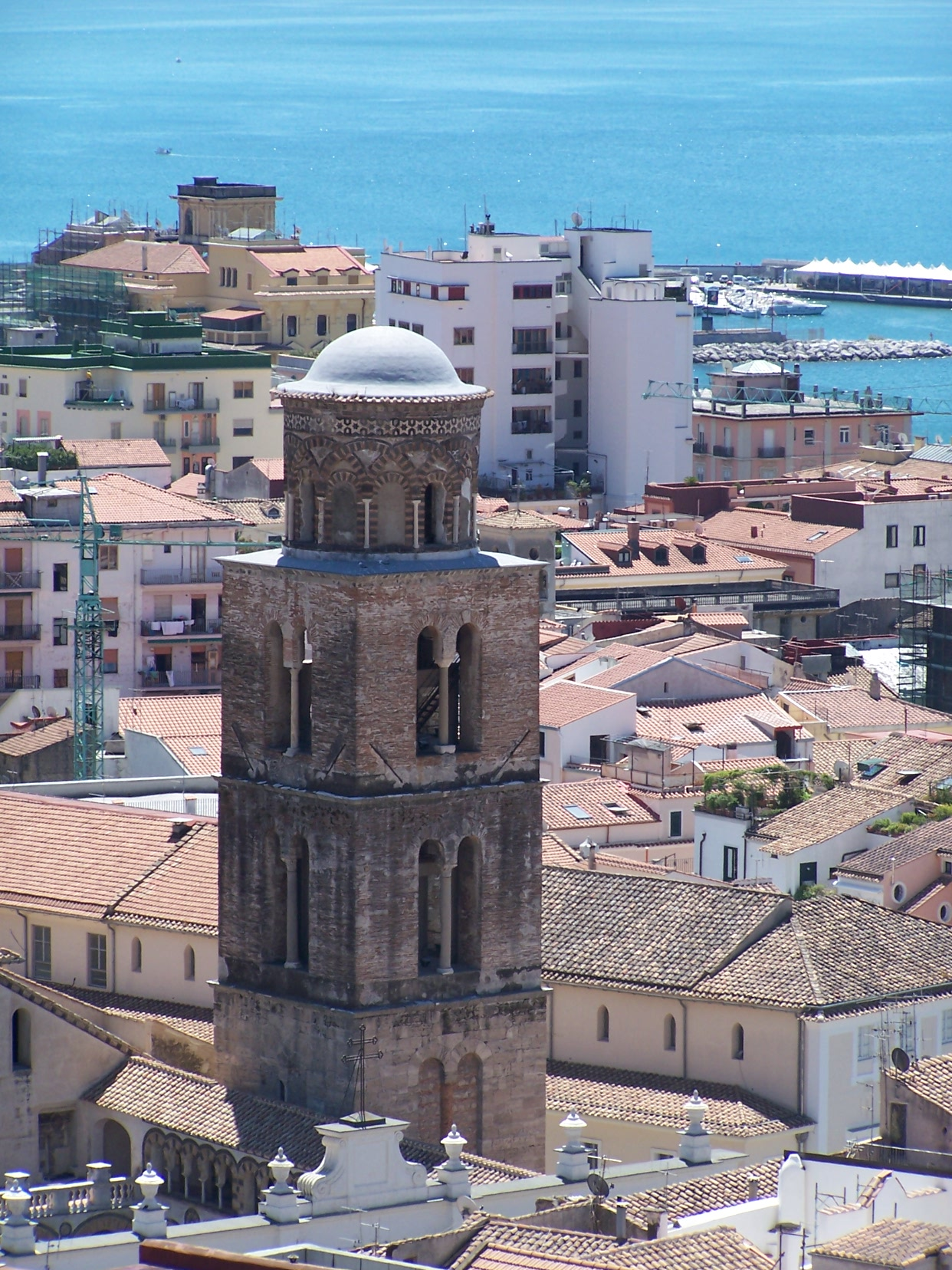 Cathedral Bell Tower in arabic-norman style; Salerno, Italy